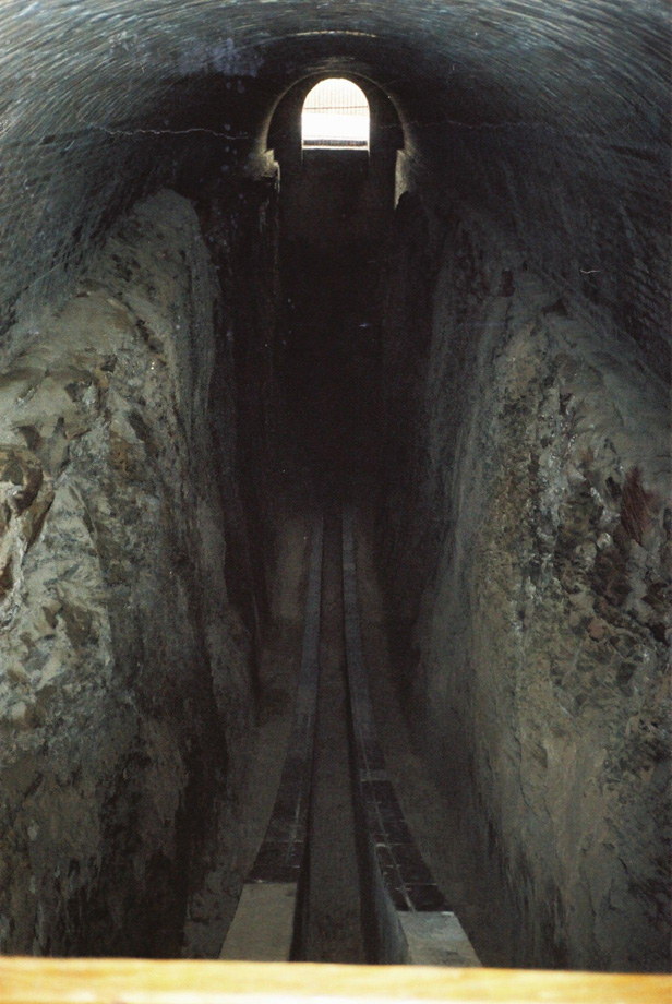 What remains of the ulughbek observatory, a curved track